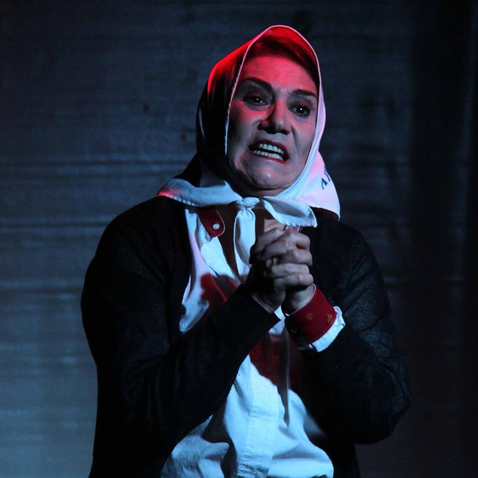 "Blasphemy" by Vicente Zito Lema